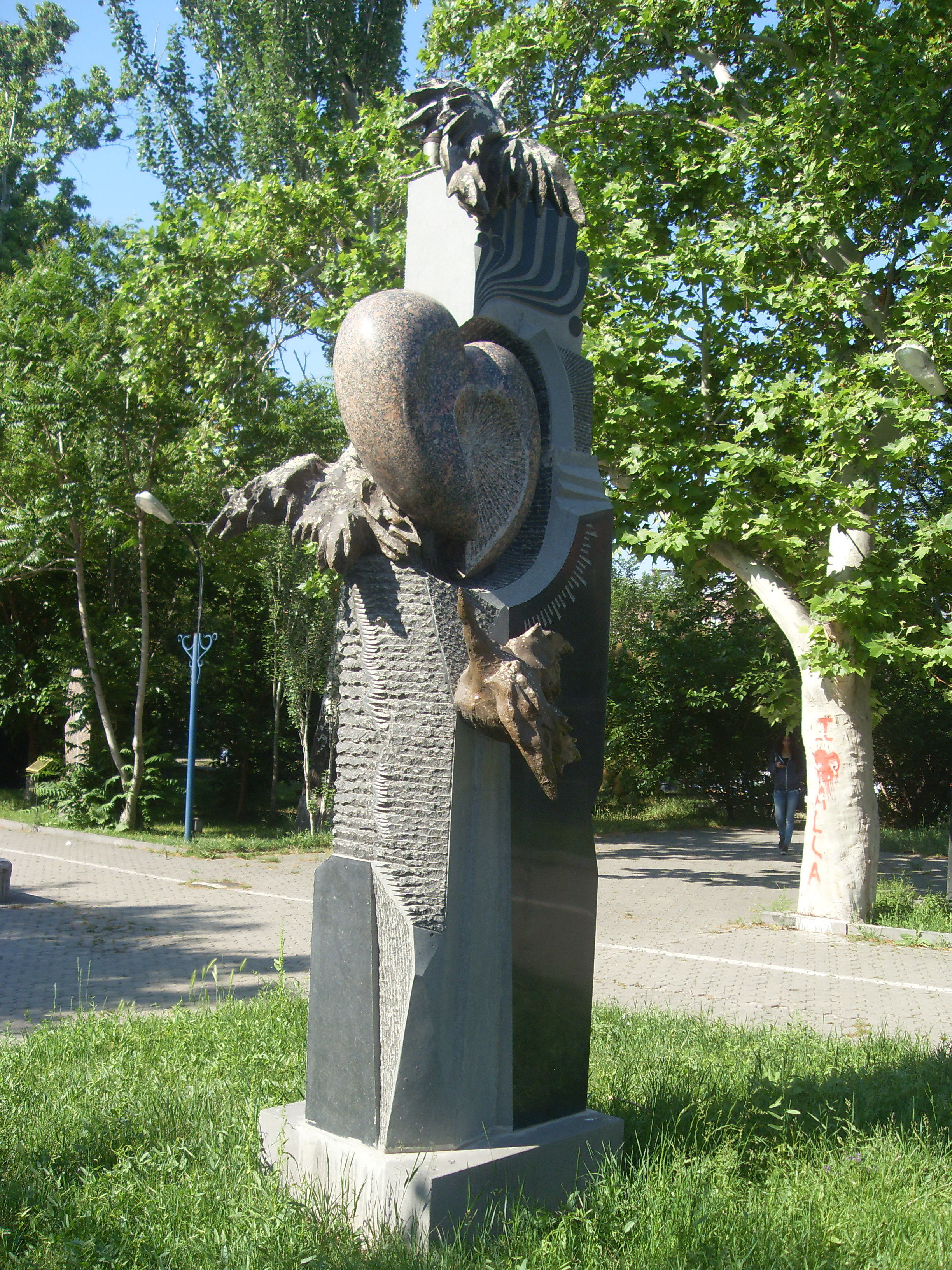 'The Alley of Armenian Benefactors' Memorial complex. Yerevan, Armenia. Sculptor Ferdinand Arakelyan.